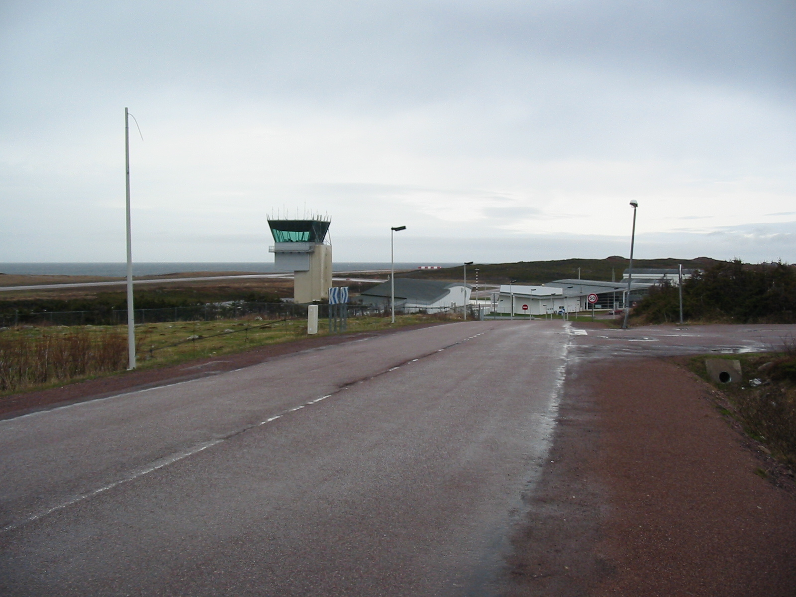 Saint-Pierre Airport from the road taken on May 14 2008.